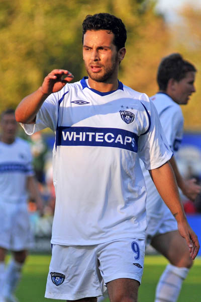 Picture of soccer player, Davide Chiumiento. Wilson Wong photo.